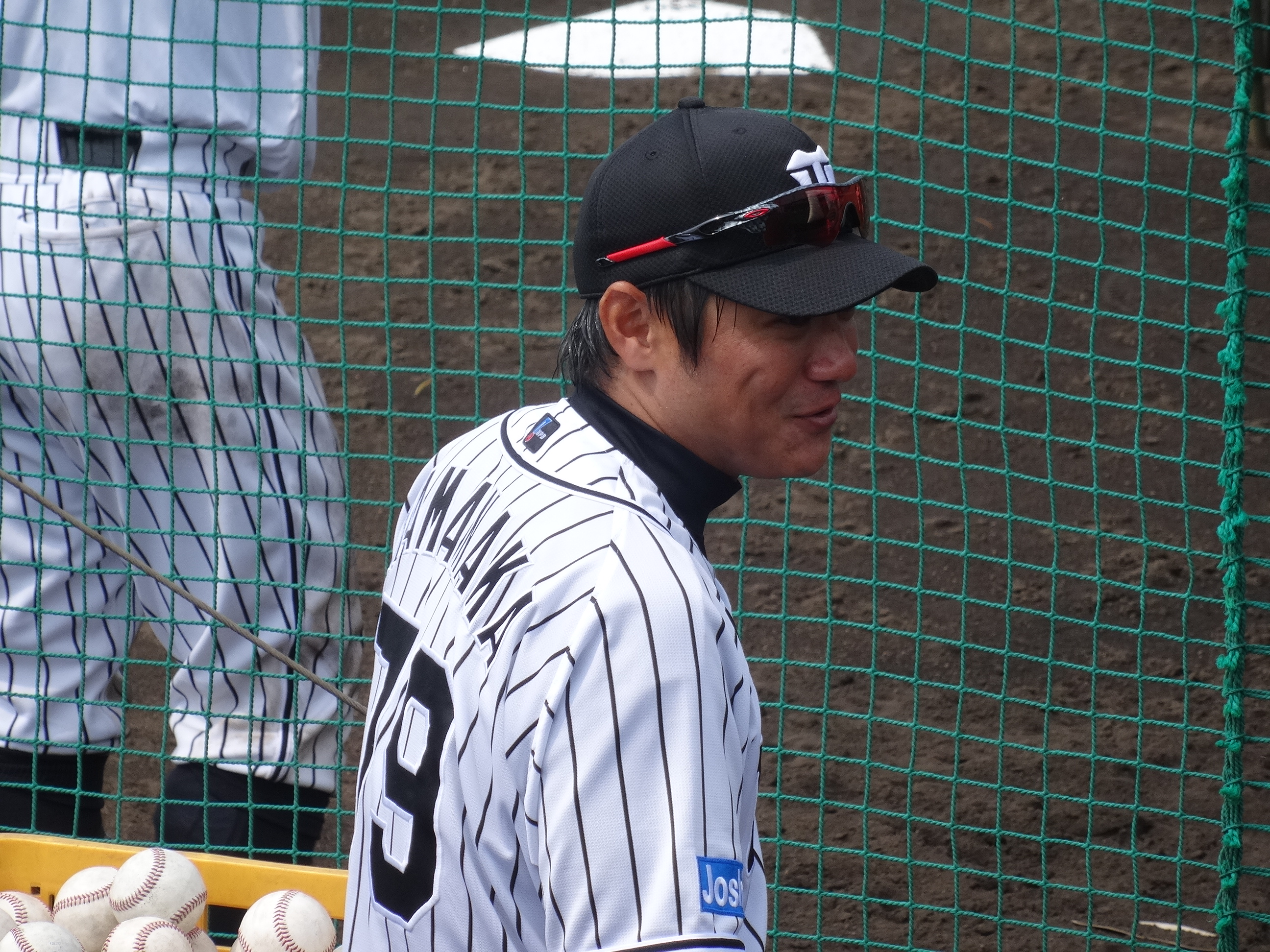 Osamu Hamanaka, coach of the Hanshin Tigers, at Hanshin Naruohama Baseball Ground.